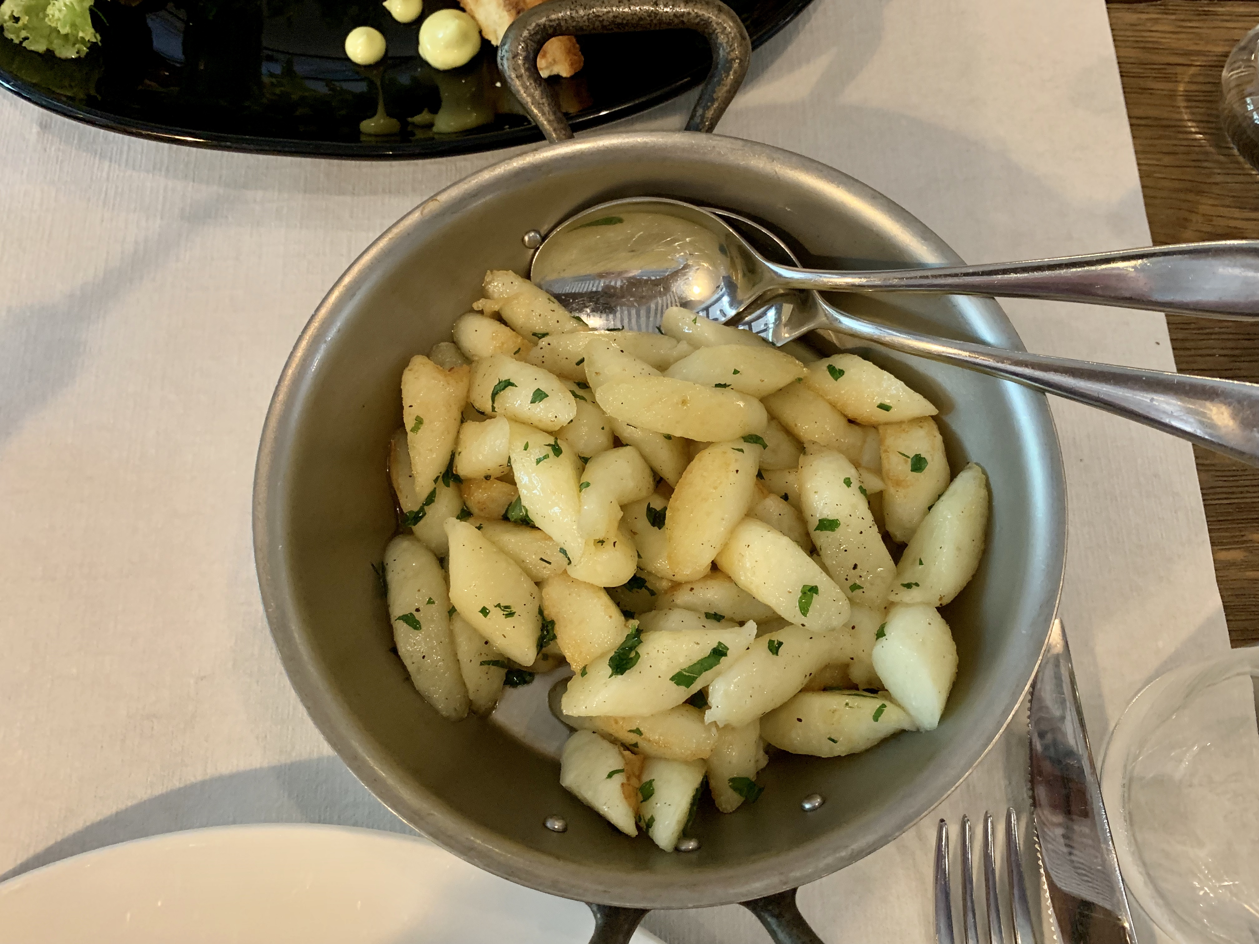 Kopytka at Restauracja Miodova, Kraków, Poland, 2019